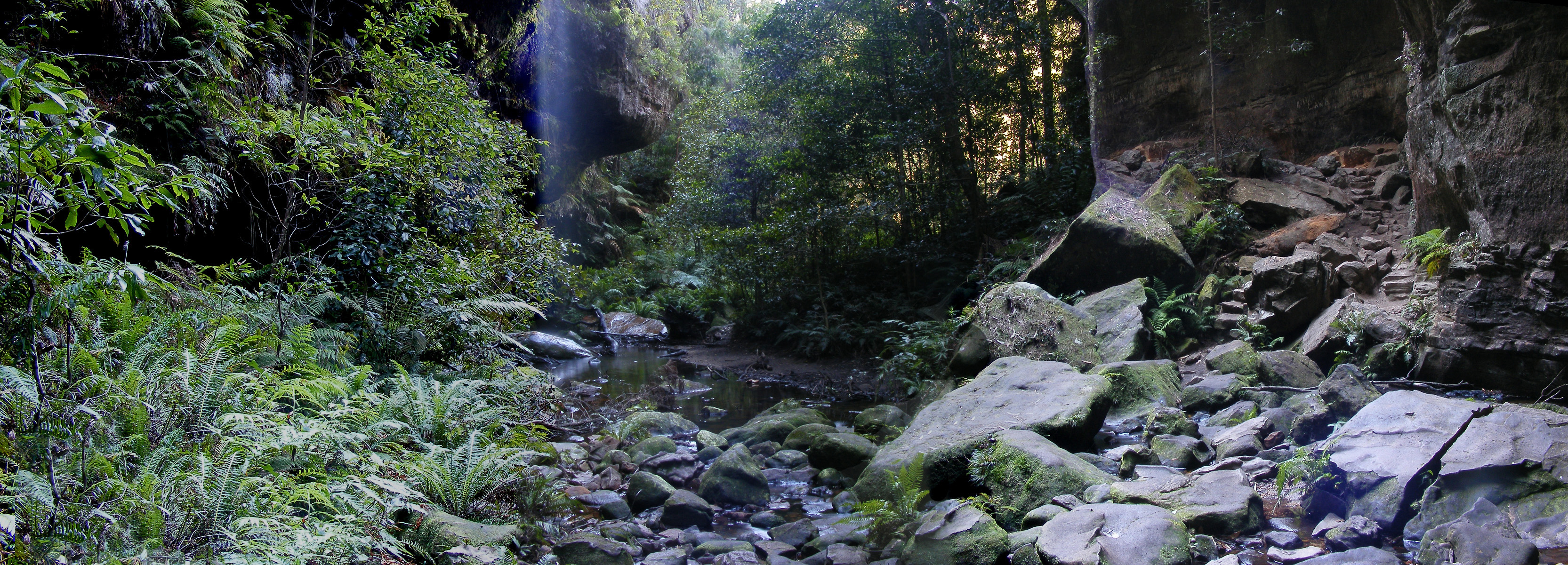 This was taken along the grand canyon walk in the blue mountains commencing at the Evans look out.